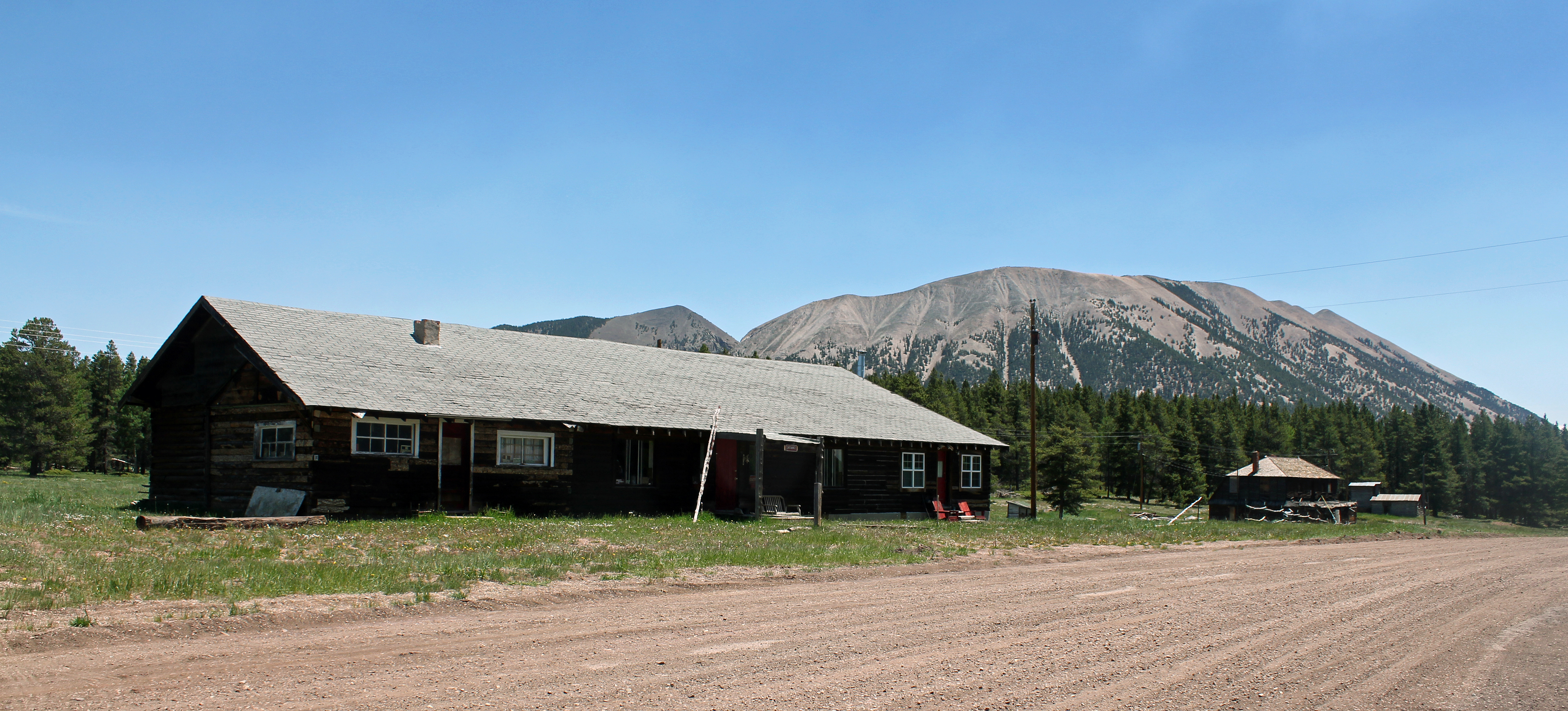 Veta Pass, also called the Veta Pass-Uptop Historic District, is located on the Old La Veta Pass road in Huerfano County, Colorado. The site is a former railroad depot and small town. The mountain in the background is Mount Mestas.